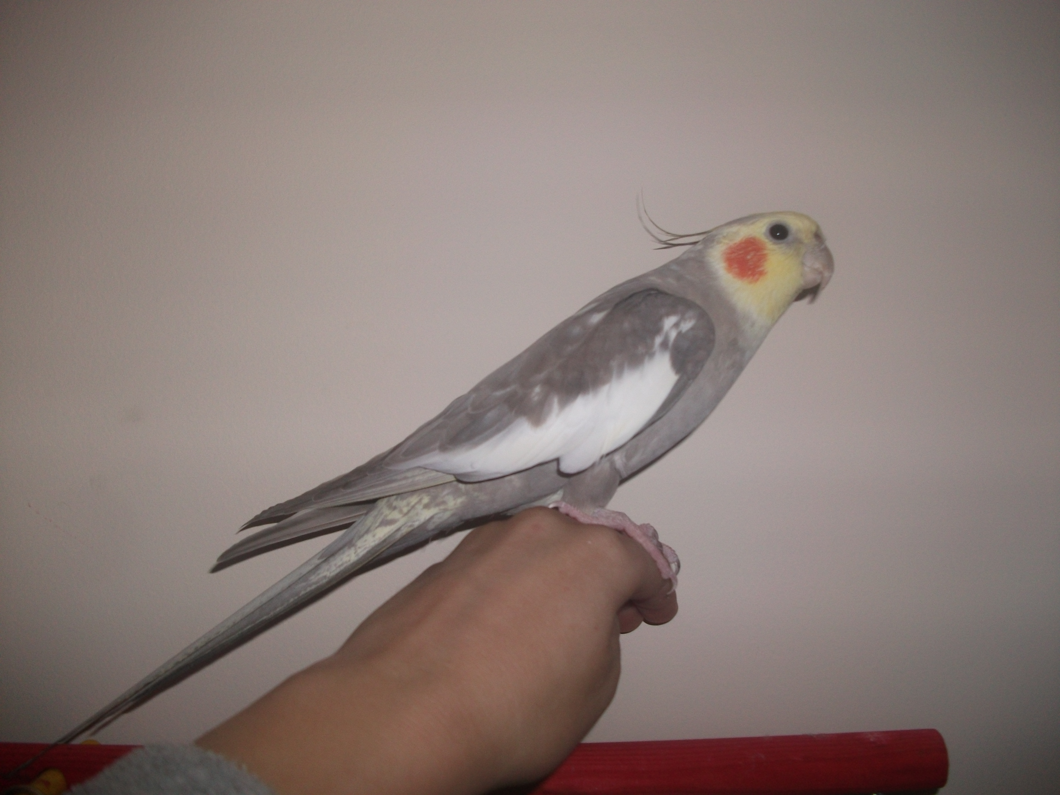 Male of cockatiel. Age [09.2011]: One year and two months.